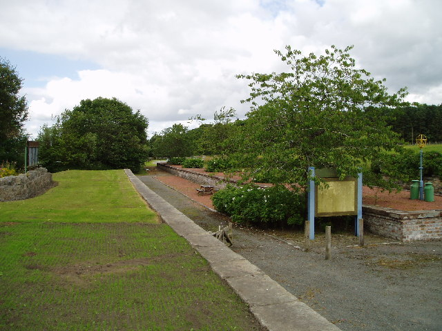 Leadburn railway platforms. The remains of Leadburn railway station are now a fine car parking and picnic area.